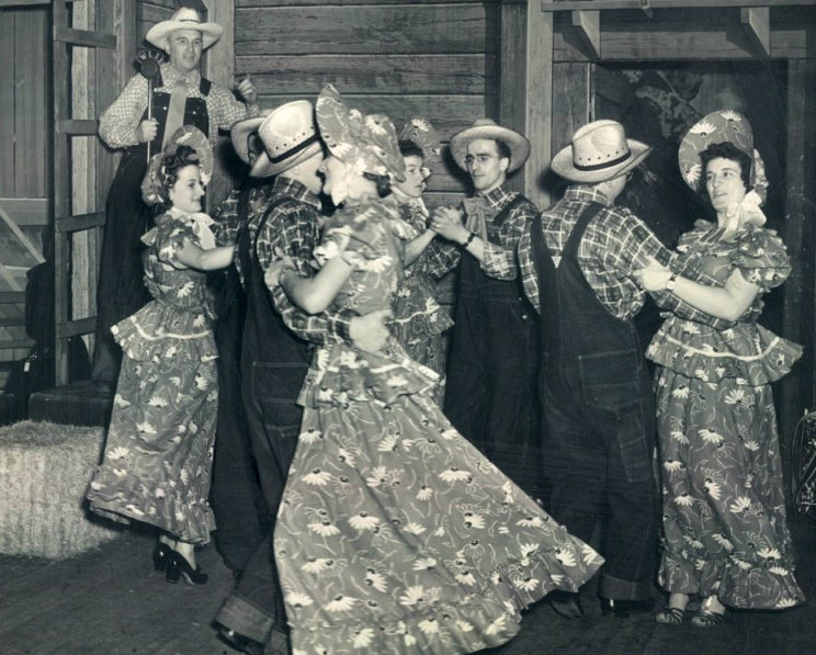 Publicity photo for the radio program National Barn Dance. Pictured are four couples dancing to the music and square dance caller Guy Colby.